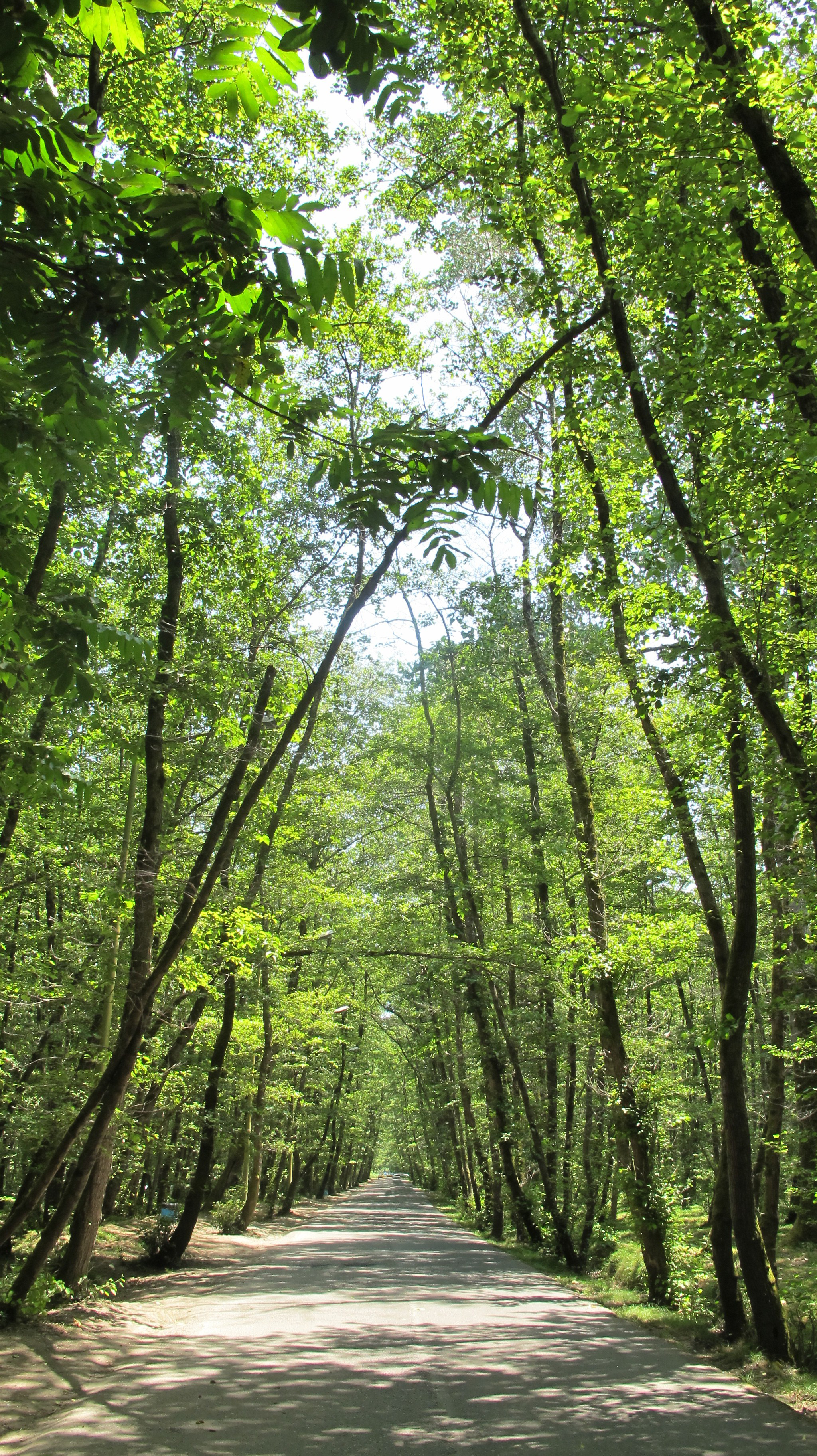 Forest Park Gysum